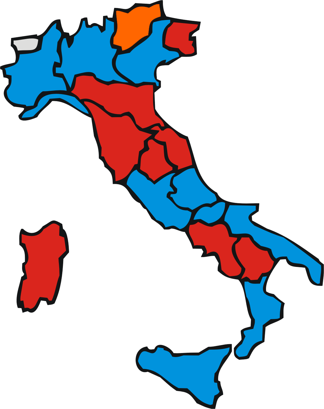 The political situation before the regional elections of April 2005 in Italy. (Red=The Union; Blue=House of Freedoms; Light Grey=Union Valdotaine; Orange=SVP & Olive Tree)